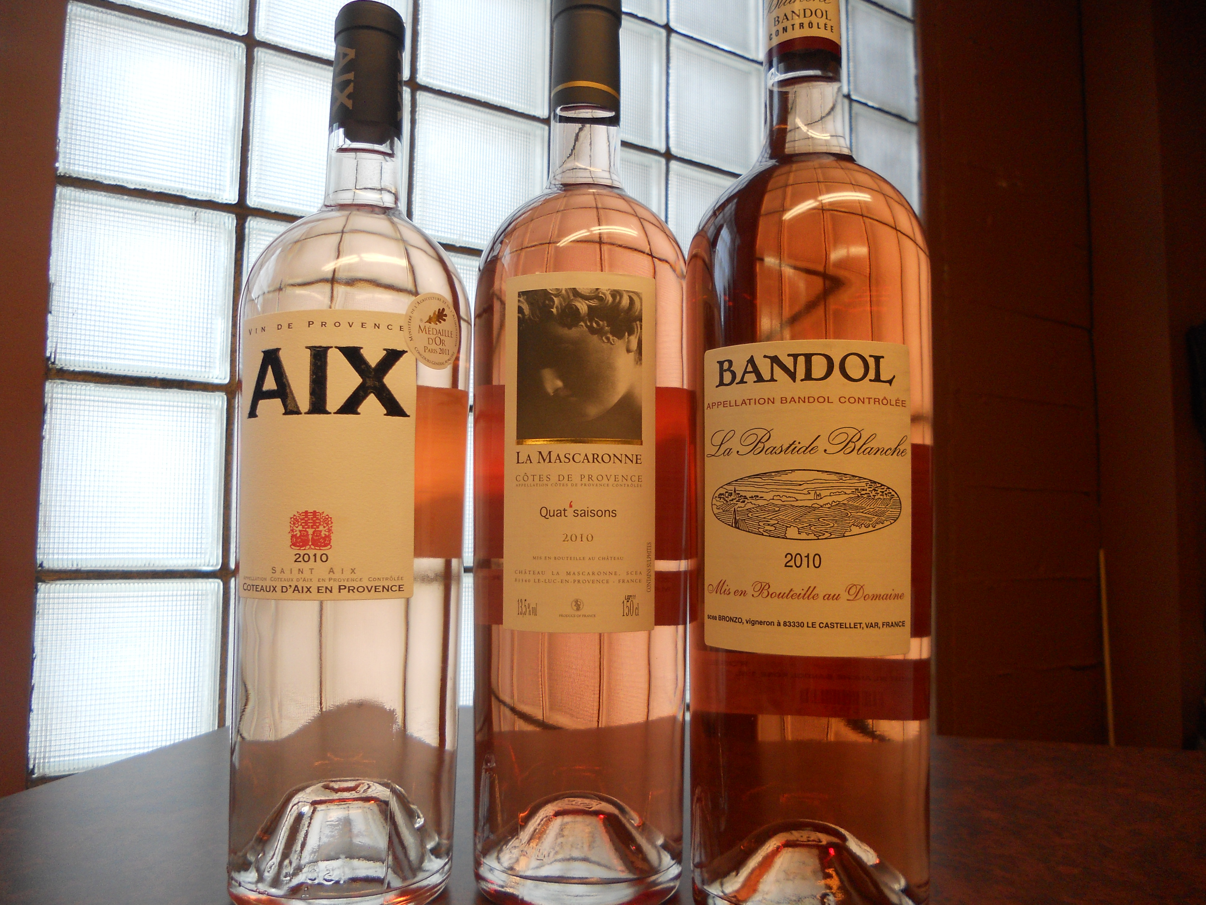 Several roses from the French wine region of Provence including Bandol, Aix and the Cotes de Provence.